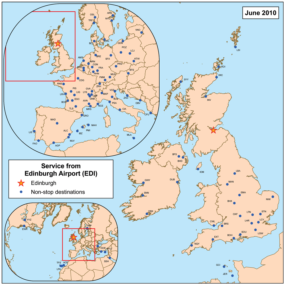 This is a route map for Edinburgh Airport as of June 2010. Map is an Azimuthal equidistant projection centered on the airport so straight lines from Edinburgh are along great circle routes.